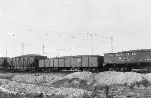 40' STEEL TWIN HOPPER GONDOLA, Built by ACF - 1907, in revenue service with New York Central reporting marks: 1907-1948